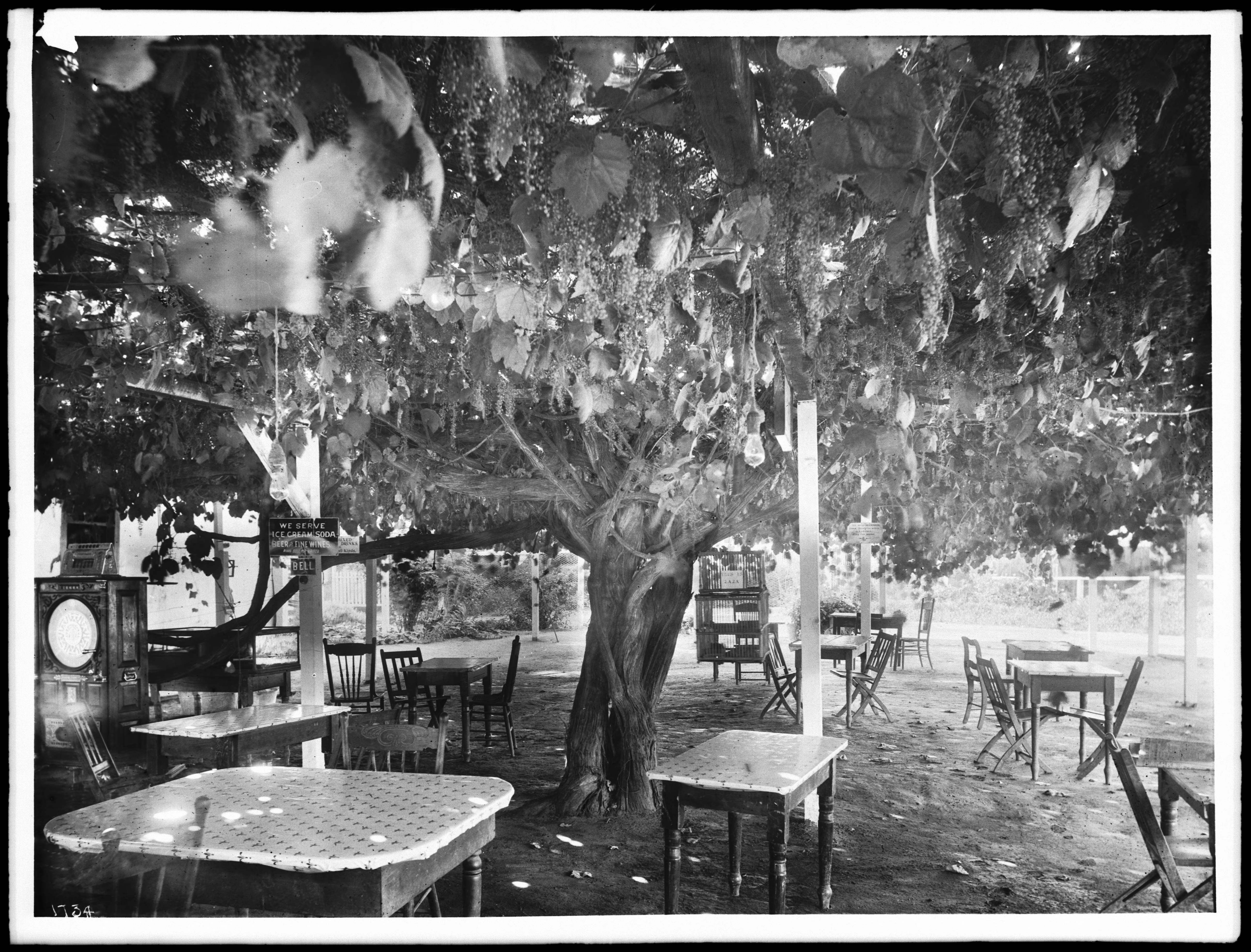 Tables and chairs under a grape arbor, Mission San Gabriel Photograph of about 9 small tables and chairs set up under a grape arbor. A few cages are stacked in the background. Vine was planted in 1862 in San Gabriel. Legible signs include: "We serve ice cream, soda, beer and fine wines, Ring bell for waiter", "Bell", "Mixed drinks of all kinds", "This is Zaza", "We serve ice cream, soda, beer and fine wines & lunch. Ring for waiter". A slot machine is visible at left. Filename: CHS-1734 Coverage date: circa 1898/1900 Part of collection: California Historical Society Collection, 1860-1960 Format: glass plate negatives Type: images Part of subcollection: Title Insurance and Trust, and C.C. Pierce Photography Collection, 1860-1960 Repository name: USC Libraries Special Collections Accession number: 1734 Microfiche number: 1-109-; 1-133-28 Archival file: chs_Volume57/CHS-1734.tiff Geographic subject (city or populated place): San Gabriel; San Gabriel Repository address: Doheny Memorial Library, Los Angeles, CA 90089-0189 Geographic subject (country): USA Format (aacr2): 1 photograph : photoprint, b&w ; 5 x 7 in.; 1 photograph : glass photonegative, b&w ; 17 x 22 cm. Rights: Digitally reproduced by the USC Digital Library; From the California Historical Society Collection at the University of Southern California Call number: CHS-1734 Project: USC Repository Contributing entity: California Historical Society Date created: circa 1898/1900 Publisher (of the digital version): University of Southern California. Libraries Format (aat): photographs Geographic subject (state): California Subject (file heading): Agriculture -- Crops -- Grapes Legacy record ID: chs-m7114; USC-1-1-1-7232 Access conditions: Send requests to address or e-mail given. Phone (213) 821-2366; fax (213) 740-2343. Geographic subject (county): Los Angeles Subject (lcsh): Agriculture; Grapes